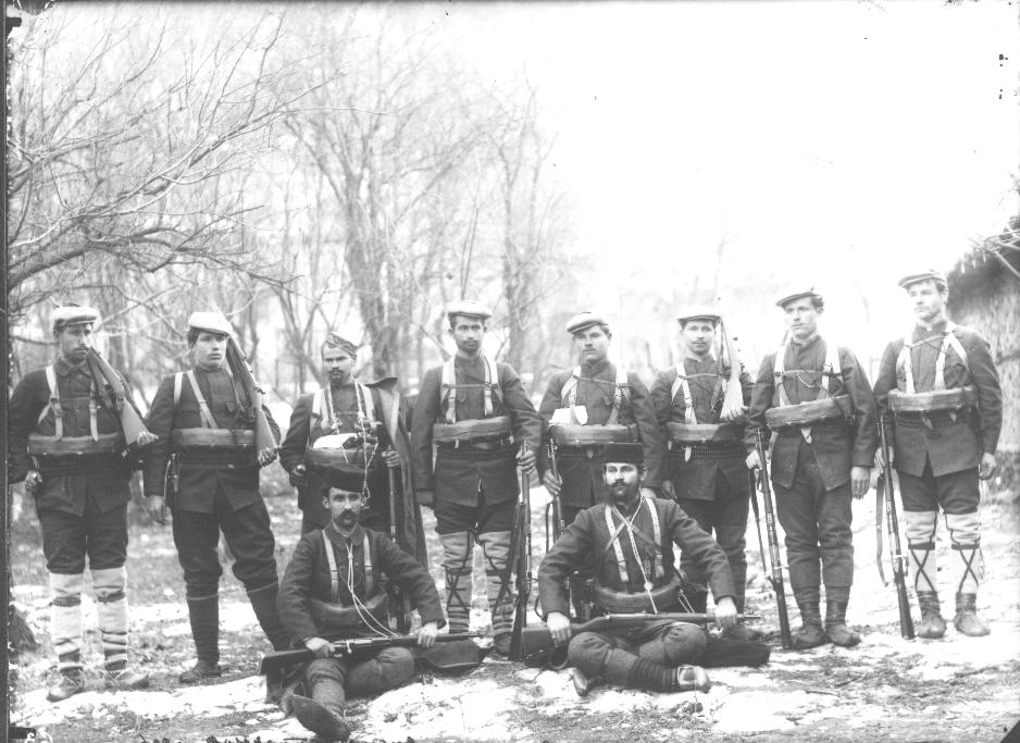 Cheta of IMARO voivoda Vasil Adzhalarski